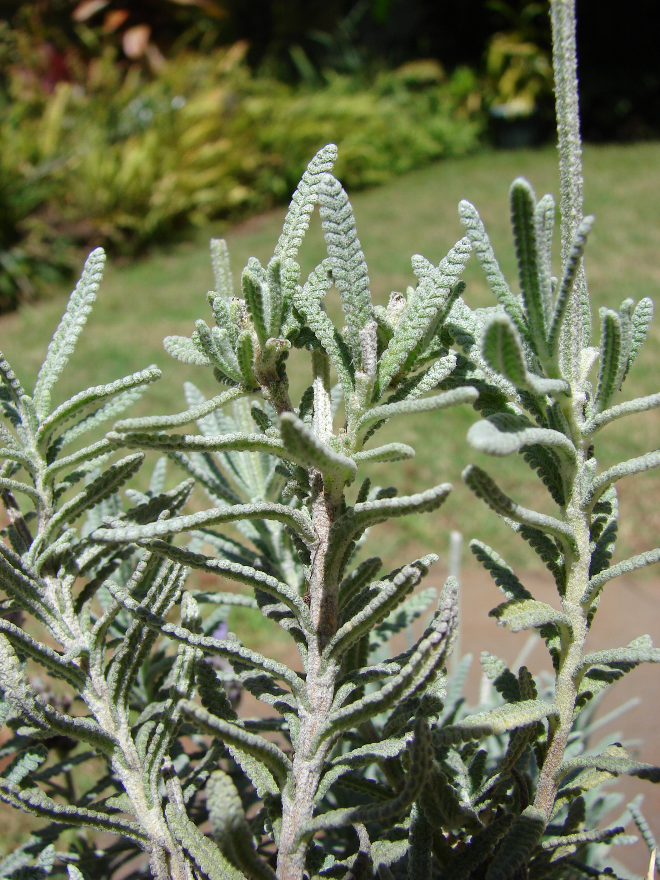 Lavandula dentata (leaves). Location: Lanai, Lanai City